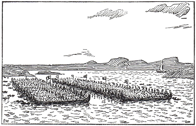 Harald and his enemies meets in Hafrsfjord Erik Werenskiold: Illustration for Harald Hårfagres saga, Heimskringla 1899-edition. «Harald og hans motstandere møtes i Hafrsfjord.»